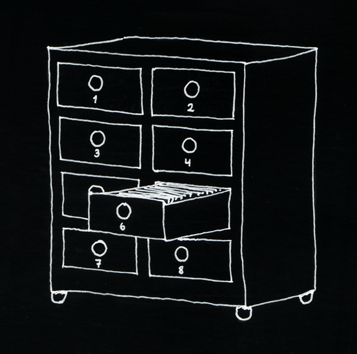 Illustration: Indexing